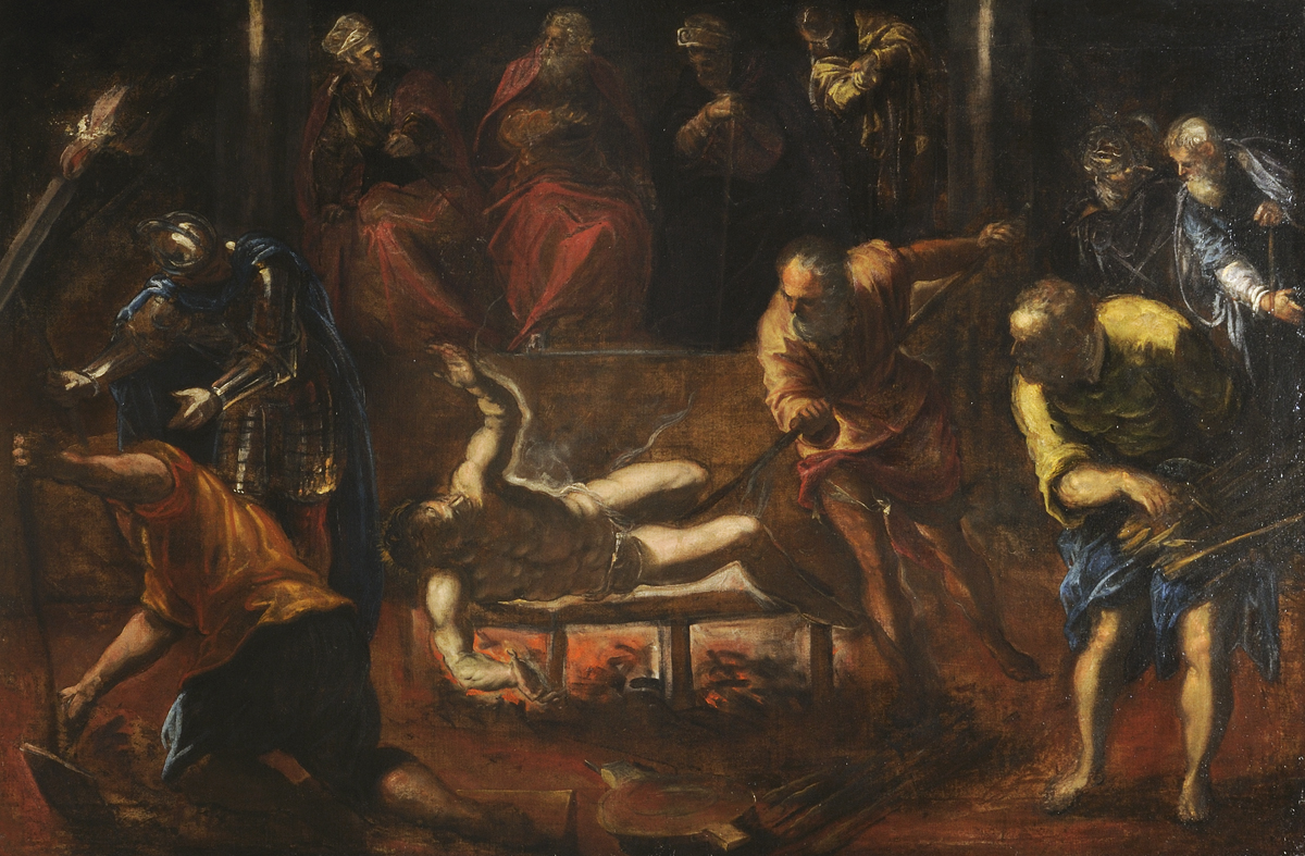 The Martyrdom of St Lawrence by Tintoretto